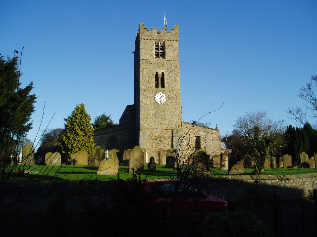 Hornby Church. Dedicated to St Mary.